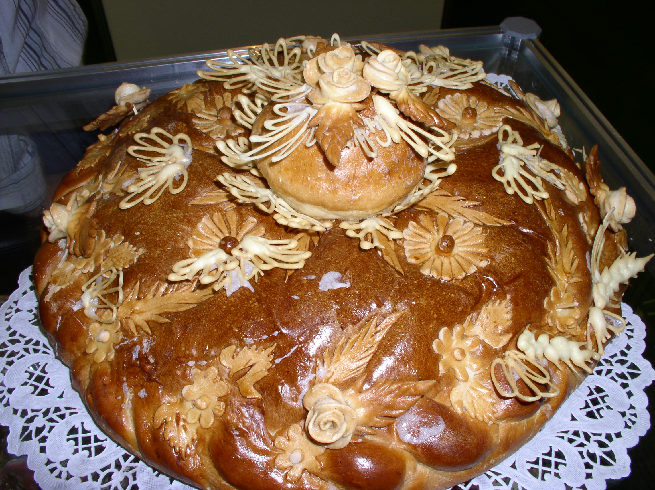 "Bread and confectionery business" exhibition. Minsk, Belarus.